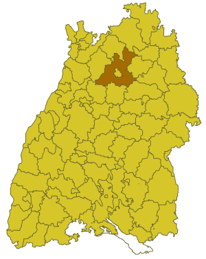 Map of Baden-Württemberg with the former county of Heilbronn before 1973